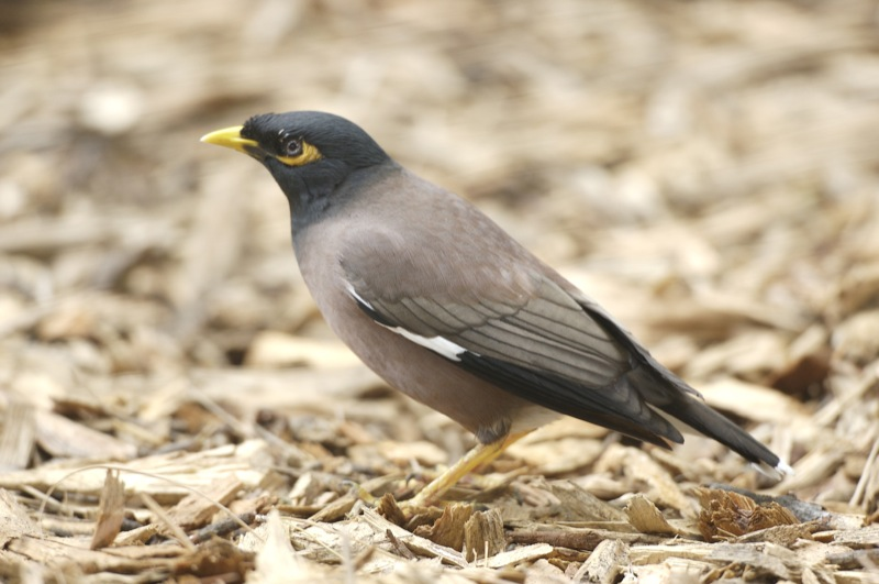 Common myna (Acridotheres tristis) Trin Warren Tam-boore, Royal Park, Melbourne, Australia 9th. November 2008 690V5736